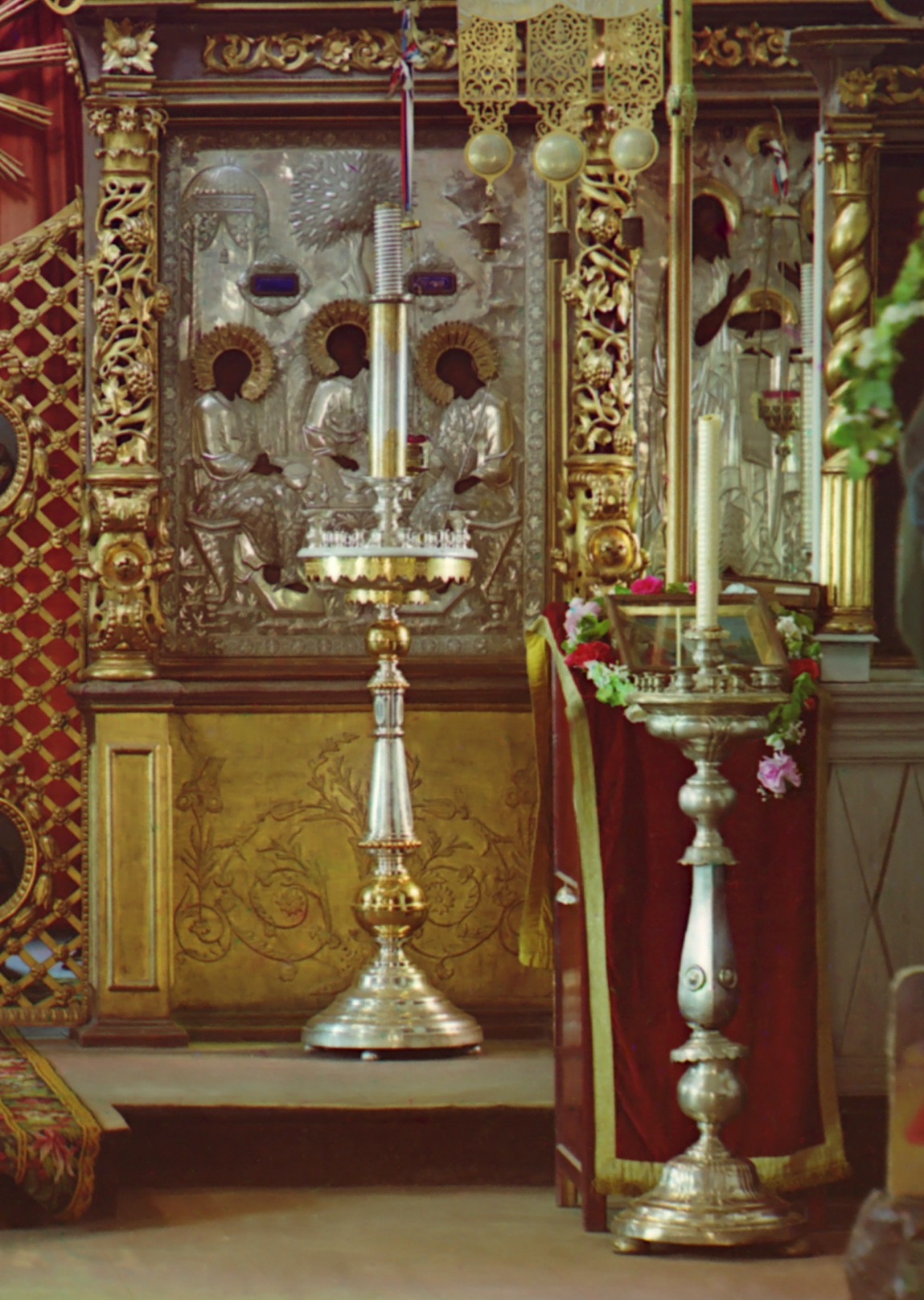 Original Description: Iconostasis in Borodino's church. Borodino.